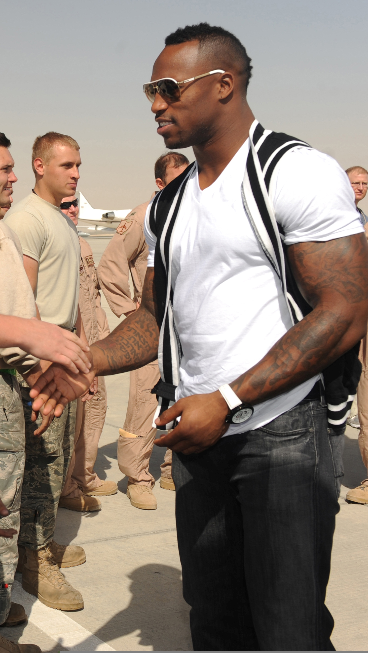 Vernon Davis, a tight end with the San Francisco 49ers, visits U.S. service members during a USO-sponsored tour at a nondisclosed Southwest Asia location.